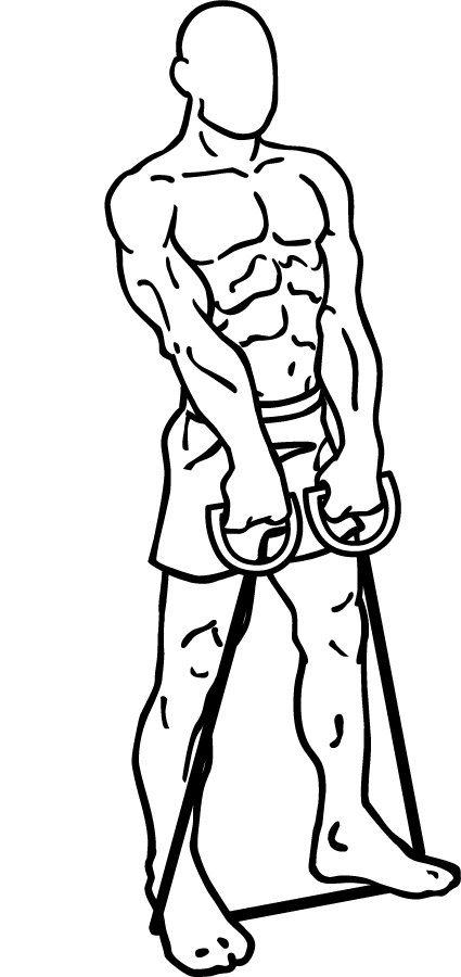 an exercise of shoulder